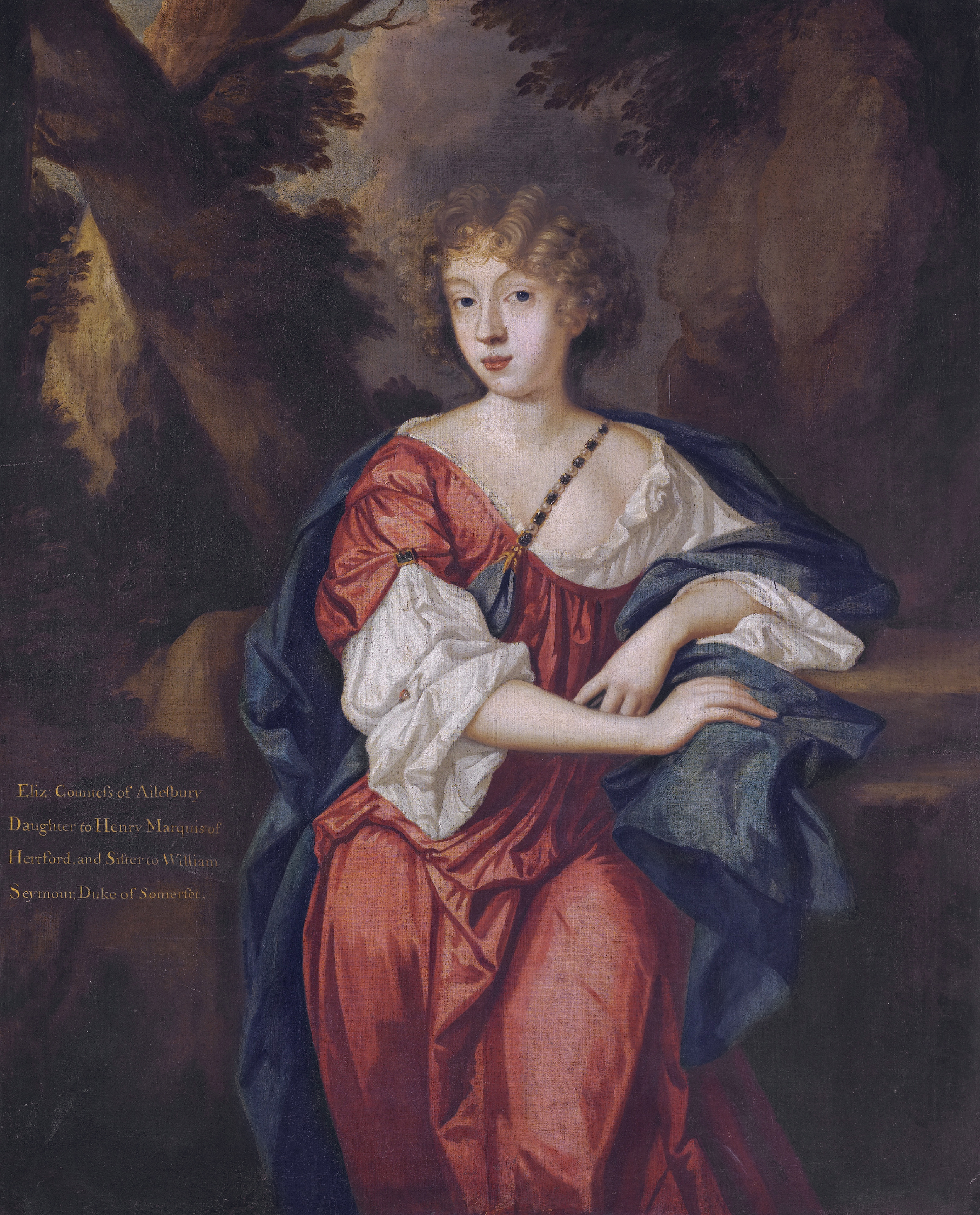 Elizabeth, Countess of Ailesbury (1656-1697) oil on canvas 124.5 x 99 cm inscribed l.l.: Eliz: Countess of Ailesbury / Daughter to Henry Marquis of / Hertford, and Sister to William / Seymour; Duke of Somerset.